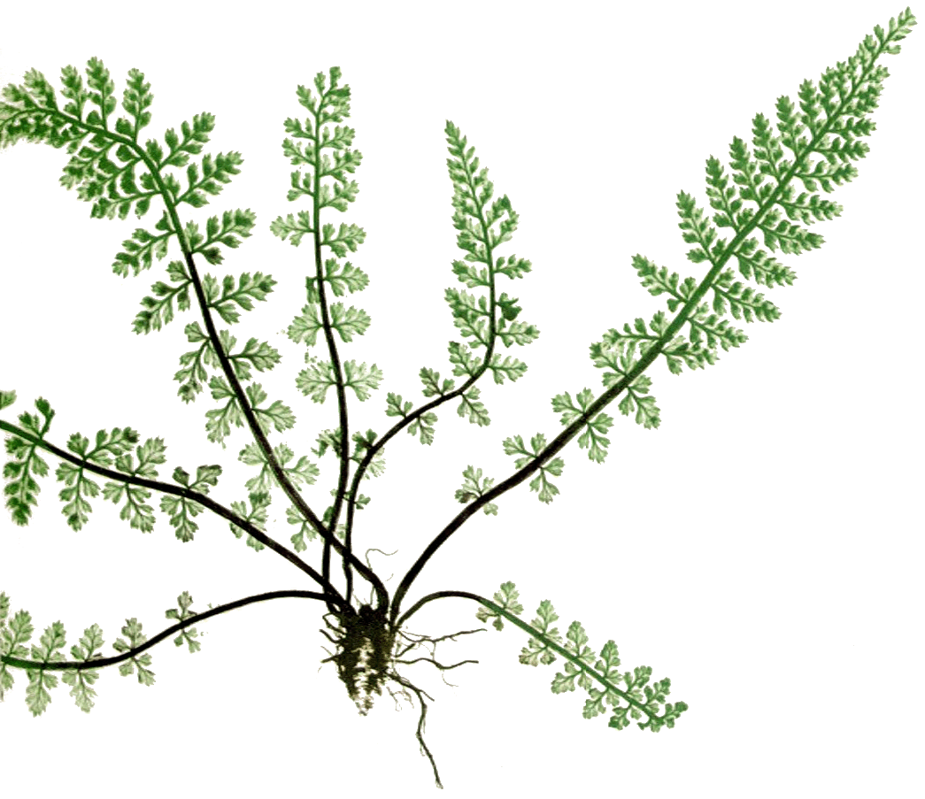 Plate 35, Fig. A1, Asplenium fontanum from The Ferns of Great Britain and Ireland (Thomas Moore), 1855.